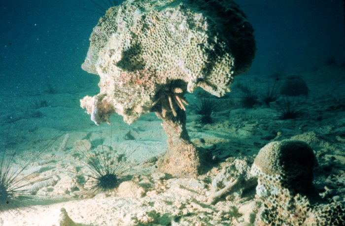 A coral rock that has undergone bioerosion. From NOAA My impression is that this photo could be showing chemical (or biological?) dissolution of the limestone pedicle or rock that occurred when a thicker layer of sediment was present here. - Marshman 00:36, 3 February 2006 (UTC)